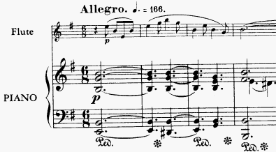 Theme of the first movement of Sonata Undine by Carl Reinecke